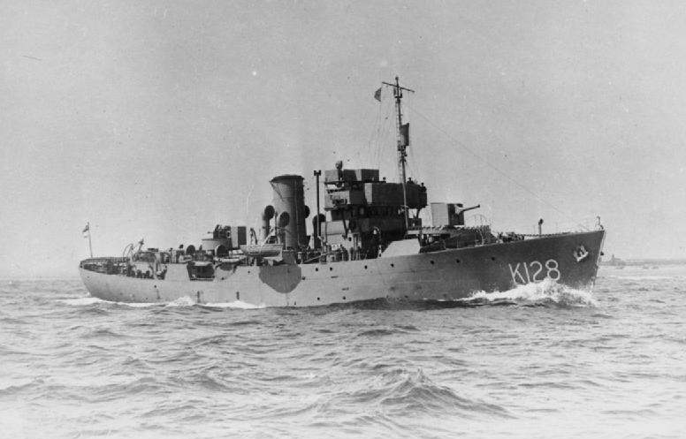 Photograph of British Flower class corvette HMS Samphire (K128) underway on completion.